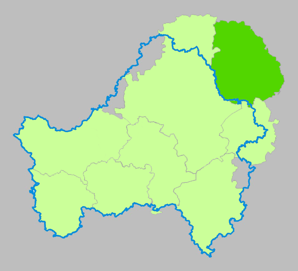 Zhizdrinsky uezd location on the map of Bryansk gubernia